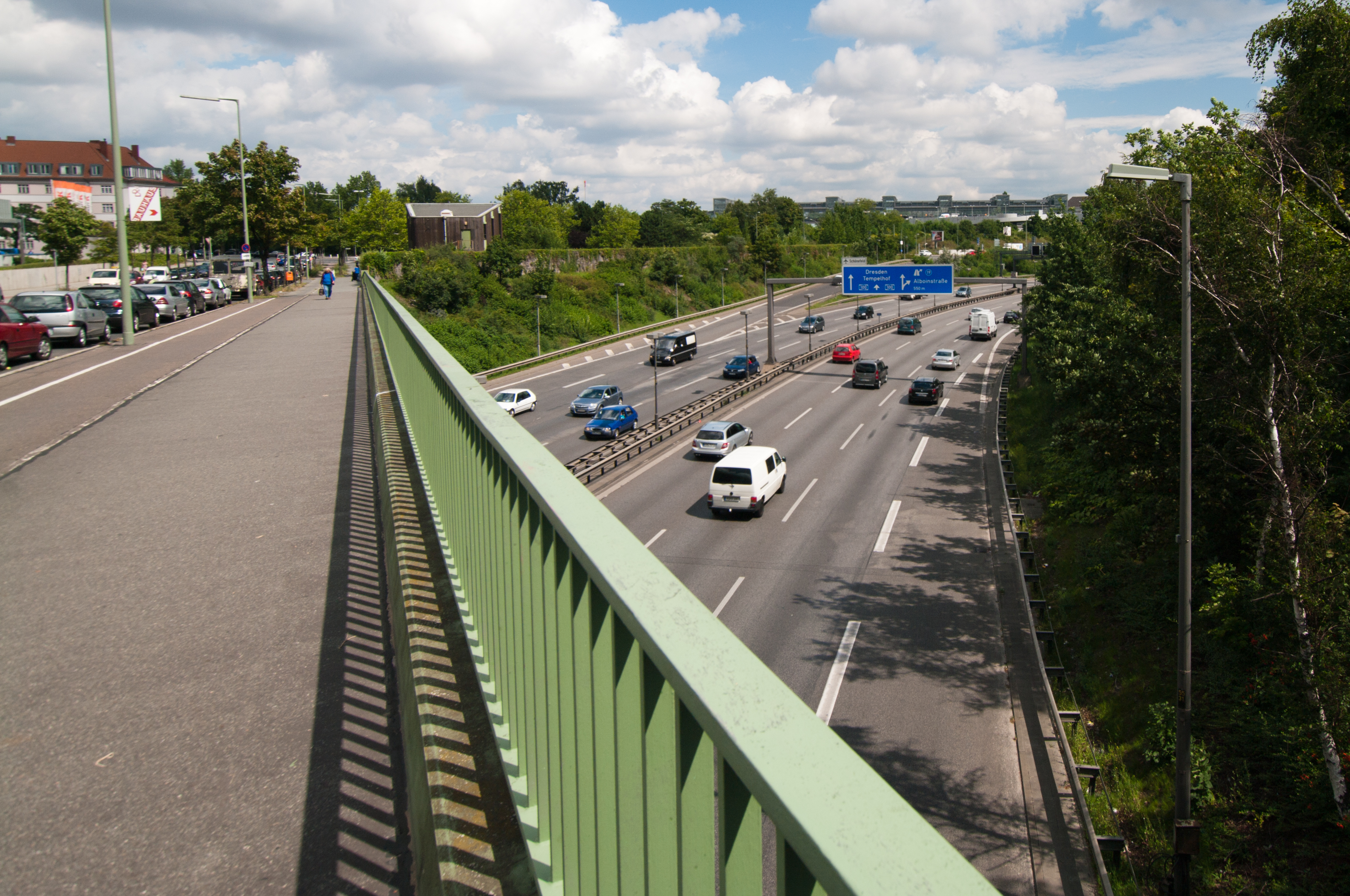 Autobahn B 100 in Berlin-Schöneberg.